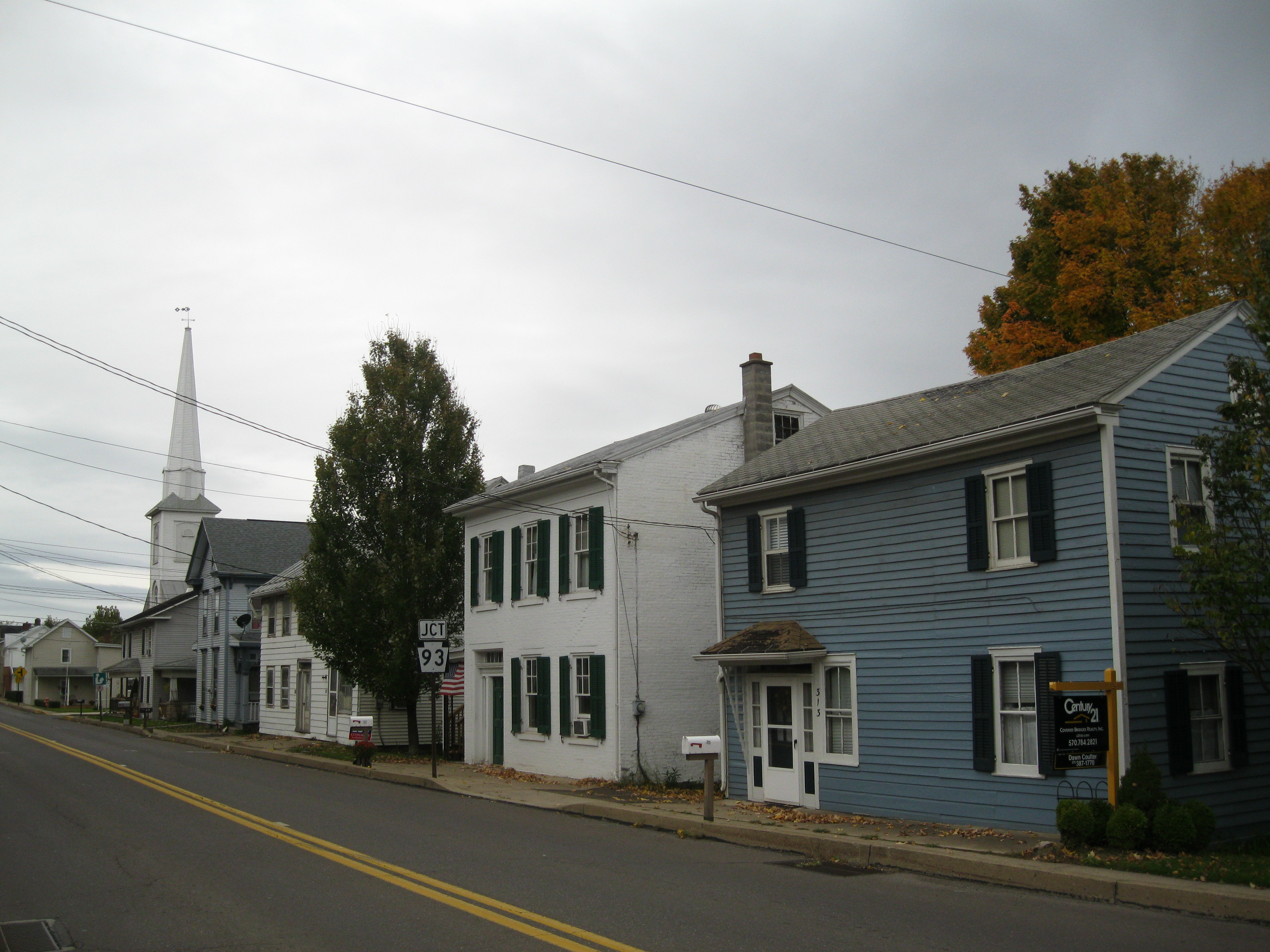 View south on PA 487 in the borough of Orangeville in Columbia County, Pennsylvania, USA.